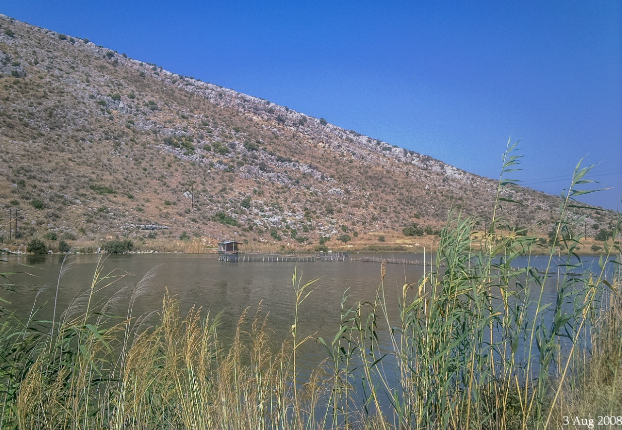 Papas Lagoon (alternative names: Araxos Lagoon, Kalogria Lagoon, Kalogera Lagoon), Achaia, Greece.